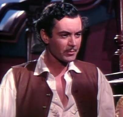 Philip Friend in Buccaneer's Girl - trailer (cropped screenshot)